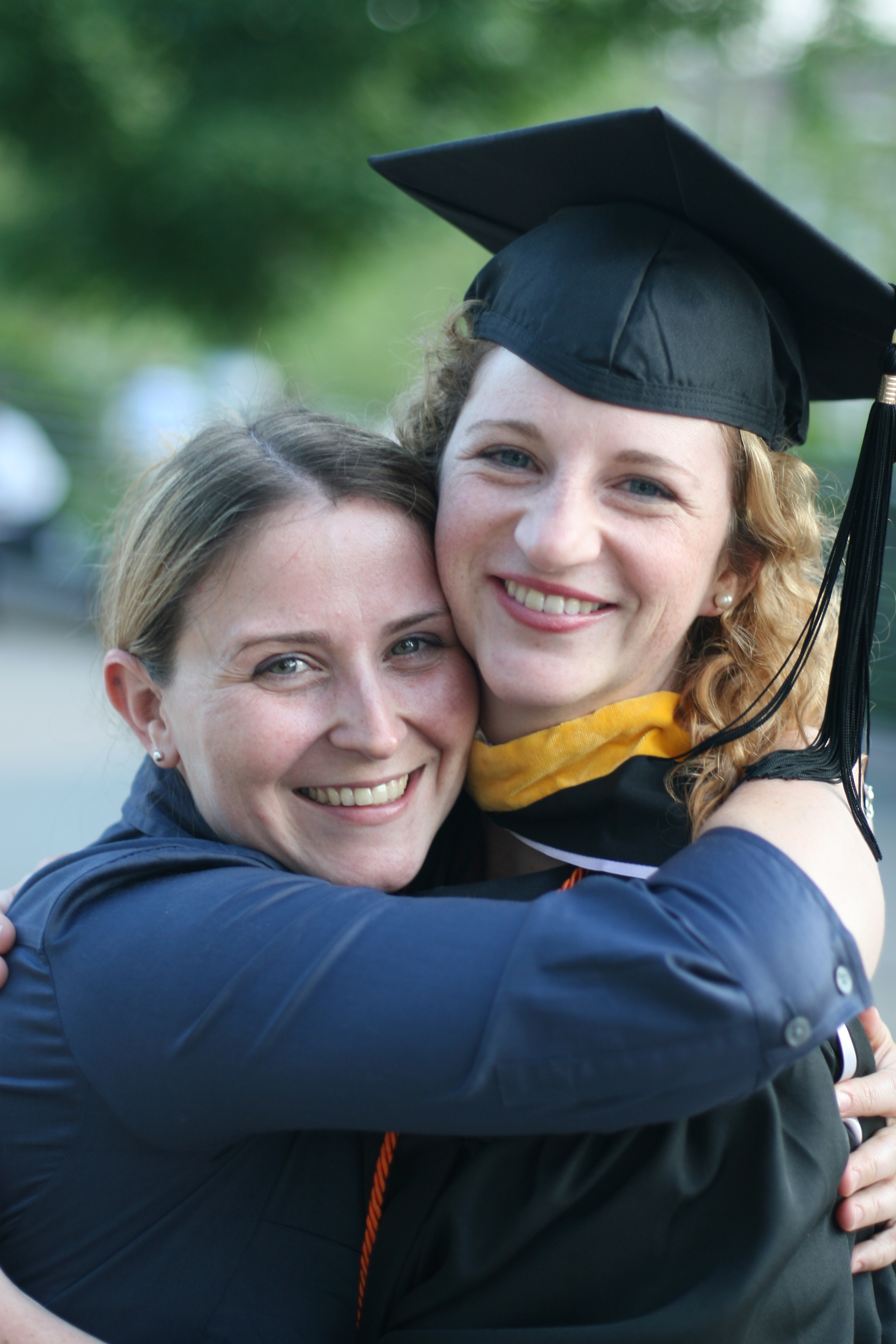 Graduation hugs